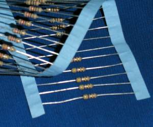 Resistors